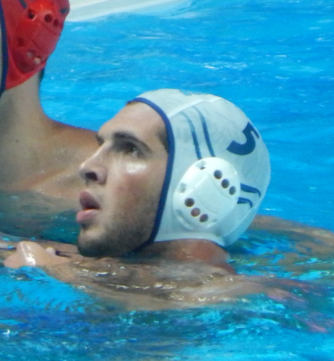 Giannis Fountoulis in the bronze medal match between Team Greece and Team Italy in the 2015 World Championship in Kazan.